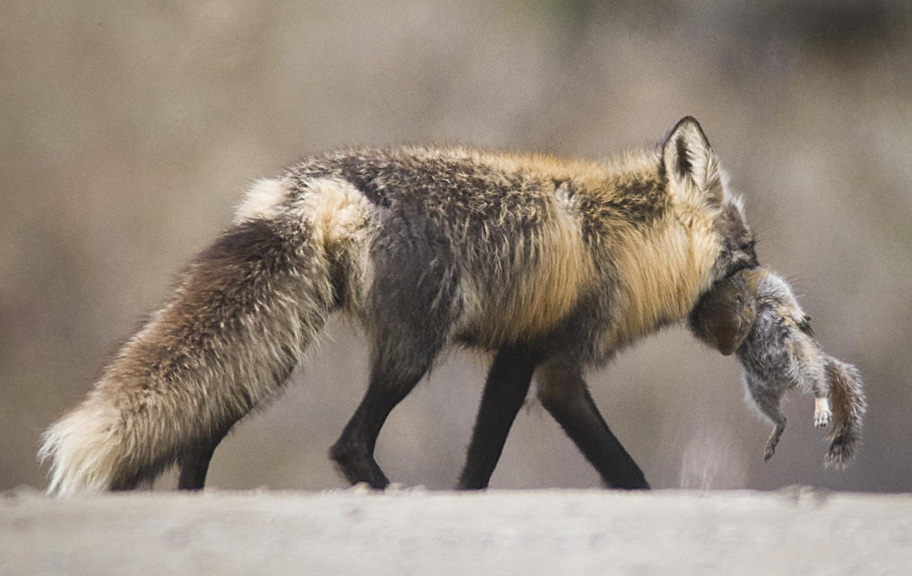 (NPS Photo/Kent Miller) Check out the official Denali Facebook, Twitter and YouTube pages: Like us on Facebook: Follow us on Twitter: Denali YouTube Channel